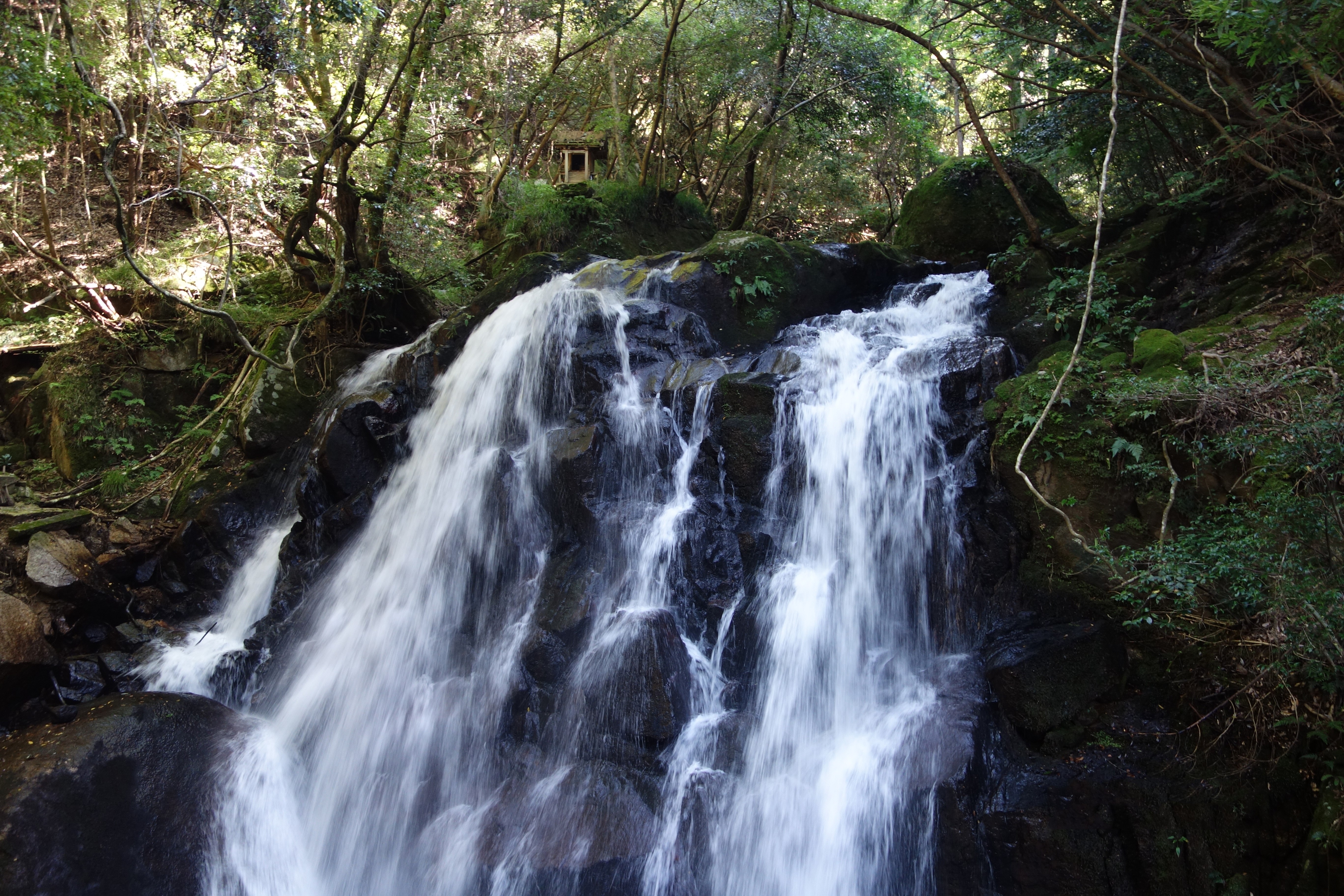 4.Keimei no taki(waterfall) in Kōyama, Shigaraki, Koka, Shiga, Japan